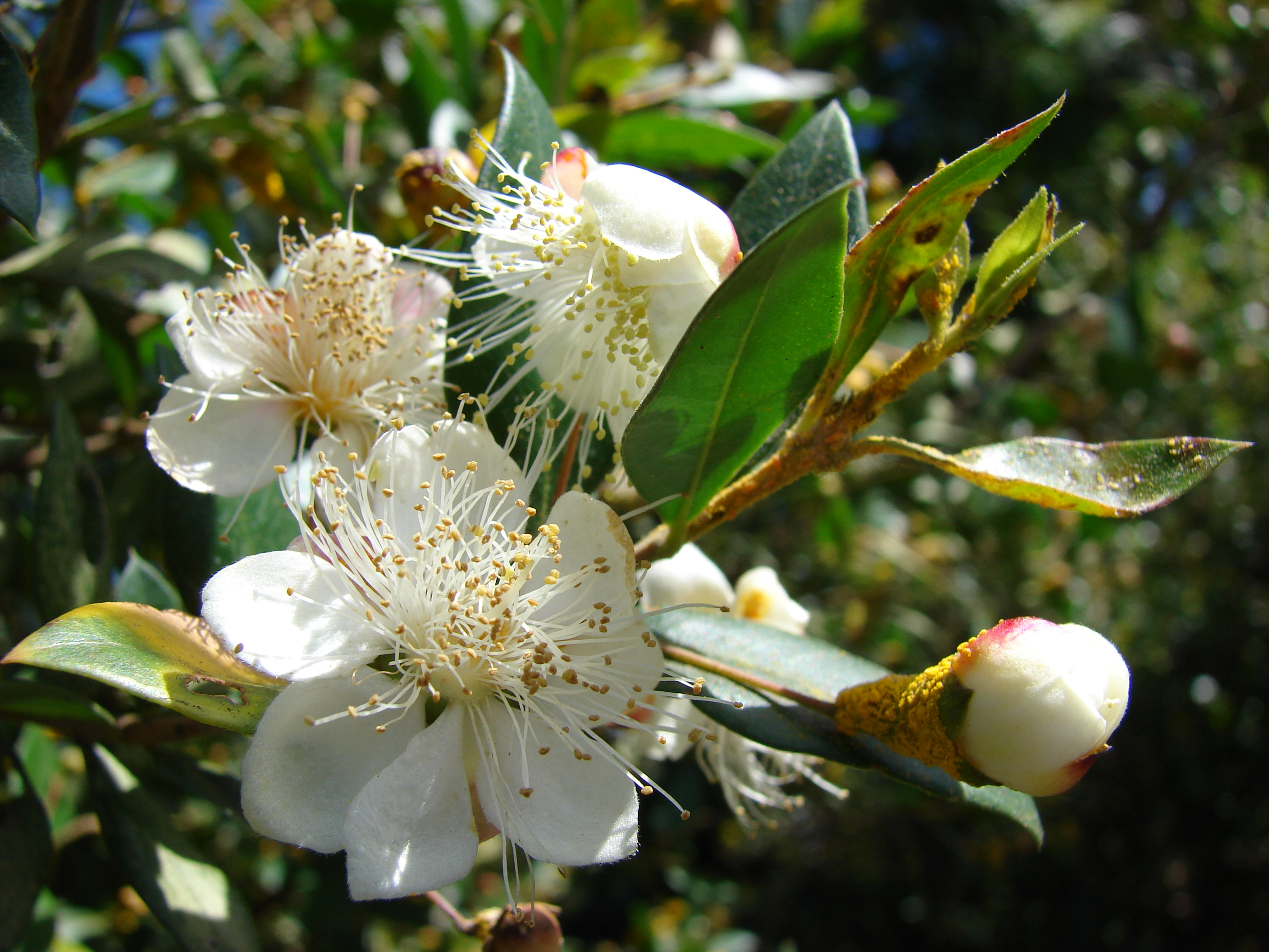 Myrtus communis (flowers with Puccinia psidii). Location: Maui, Lower Kimo Rd Kula